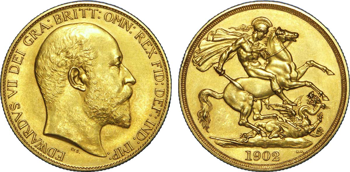 Deux livres à l'effigie d'Edouard VII, 1902